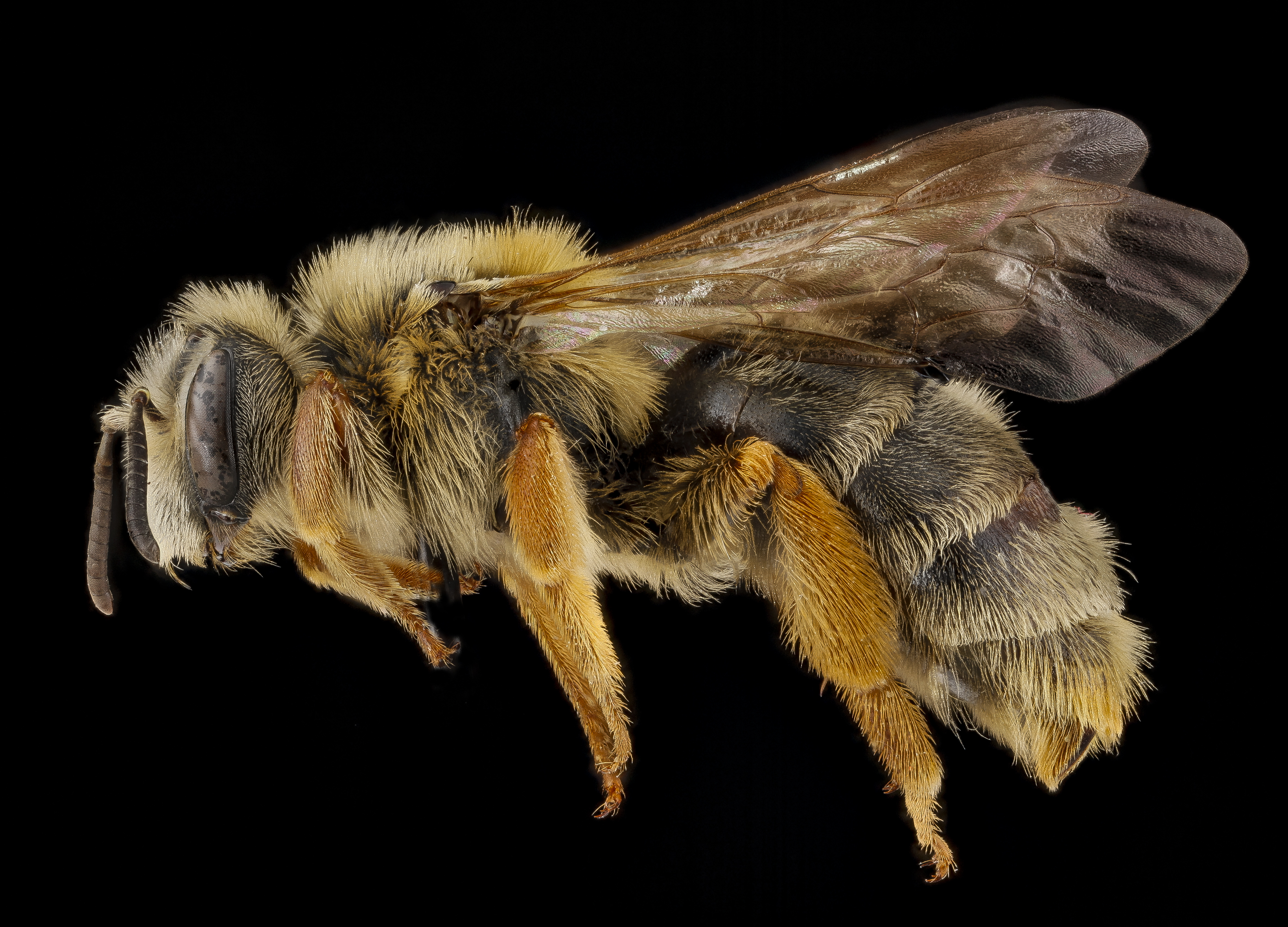 Jackson County, South Dakota, Badlands National Park